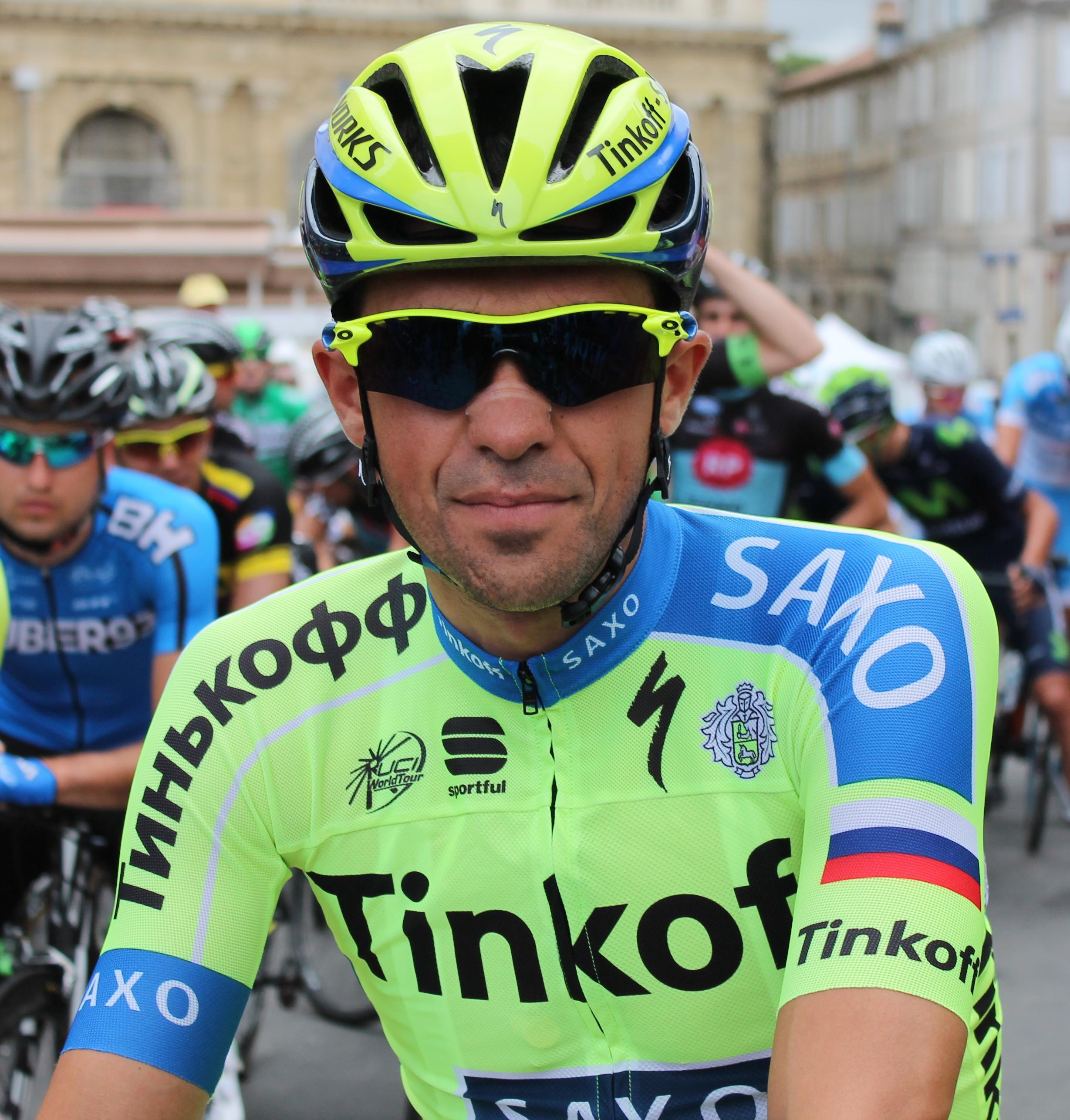 Alberto Contador (Tinkoff Saxo) at the start of stage 2 of the 2015 Route du Sud from Auch to Saint-Gaudens. He would eventually win the overall classification two days later.